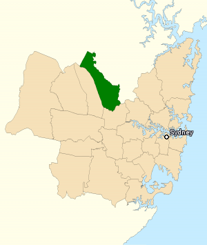 This image incorporates data that is: © Commonwealth of Australia (Australian Electoral Commission) 2009 Division of Mitchell 2010